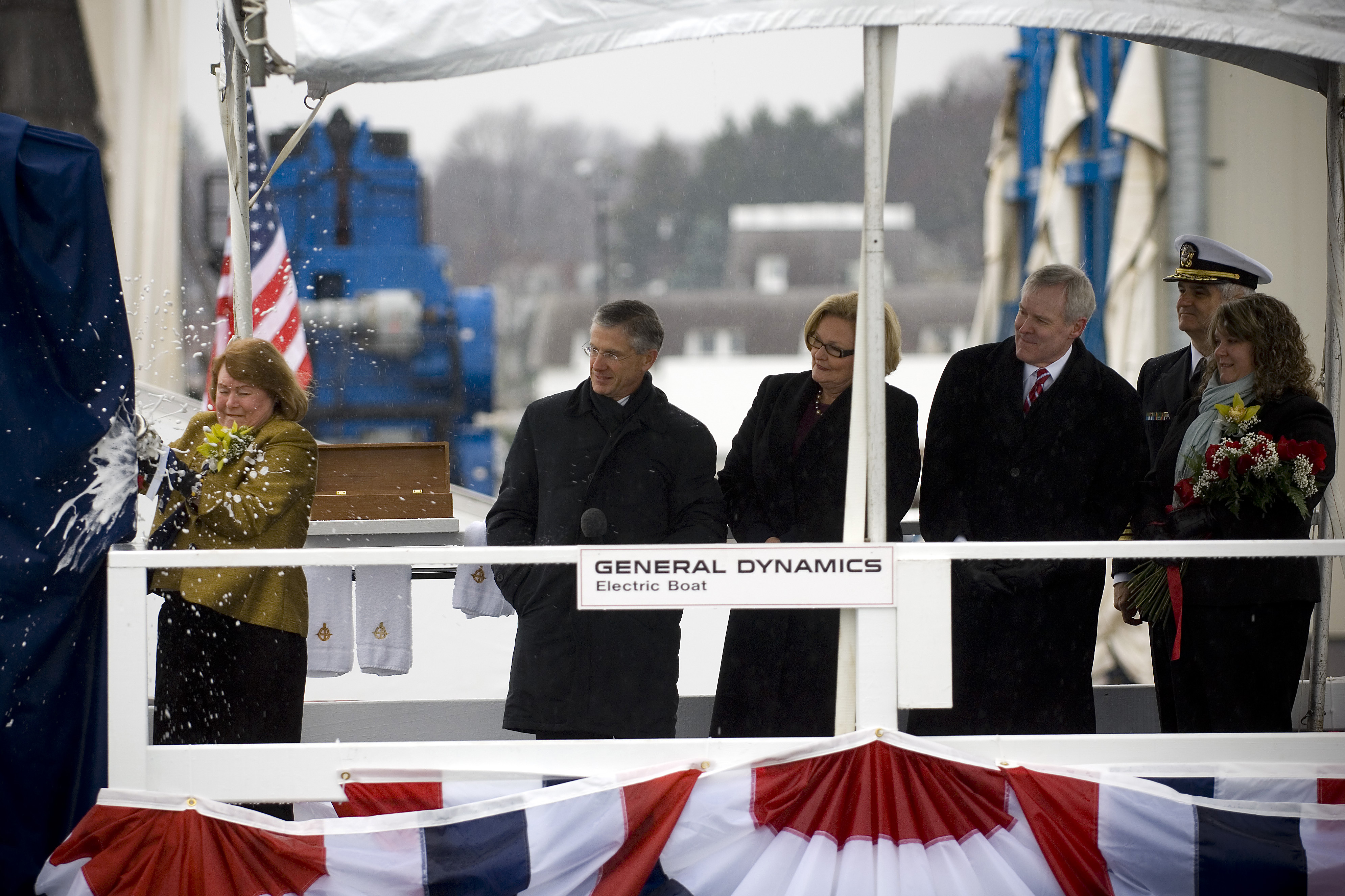 GROTON, Conn. (Dec. 5, 2009) Rebecca Gates breaks a bottle of champagne on the sail of the Virginia-class attack submarine Pre-Commissioing Unit (PCU) Missouri (SSN 780) during a christening ceremony at General Dynamics Electric Boat in Groton, Conn. The 7,800-ton Missouri is the seventh submarine of the Virginia class and the fifth U.S. warship to be named after the Show-Me state. (U.S. Navy photo by Mass Communication Specialist 2nd Class Kevin S. O'Brien/Released)